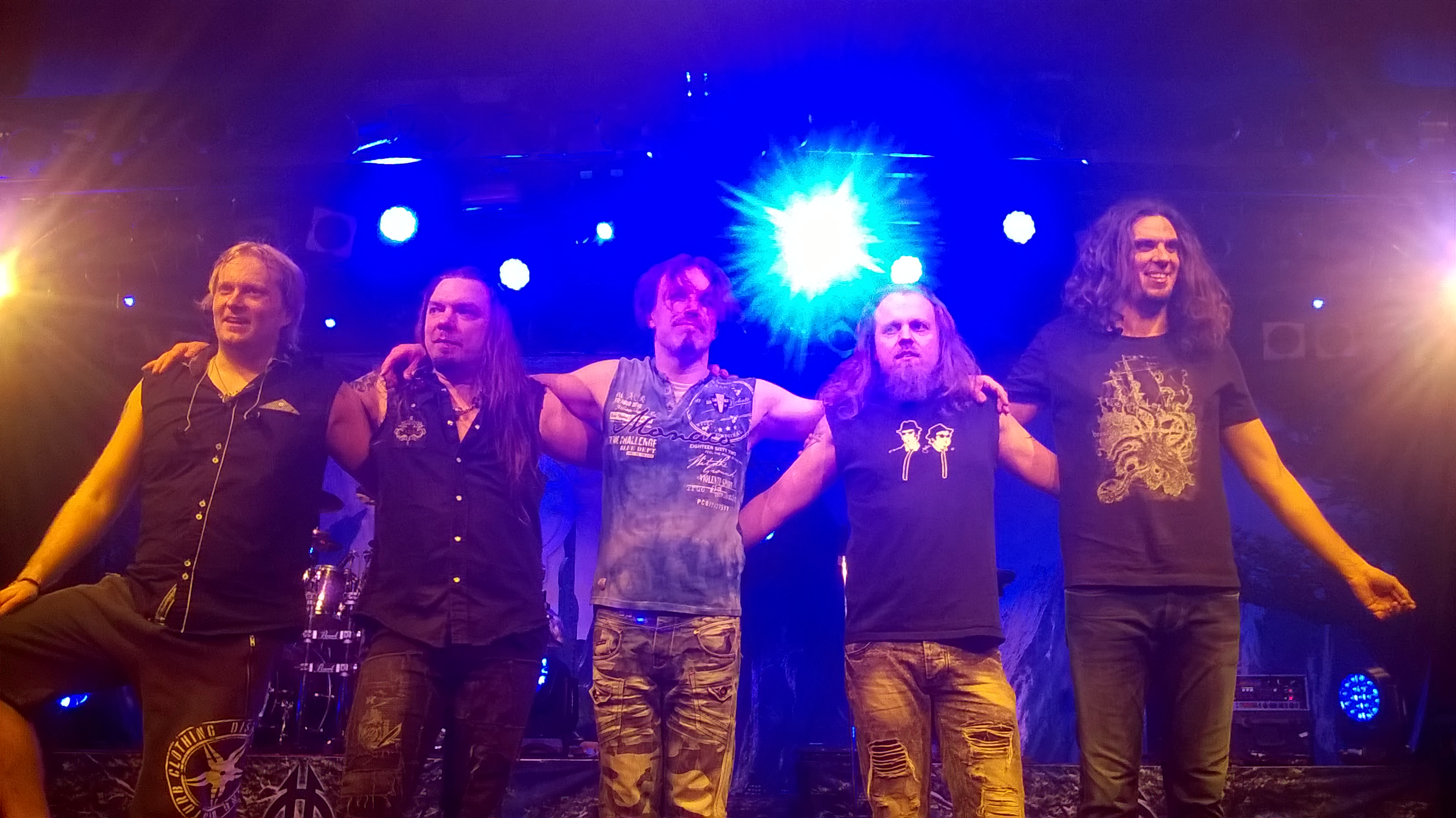 Members of Sonata Arctica on 23.02.2017 in Munich